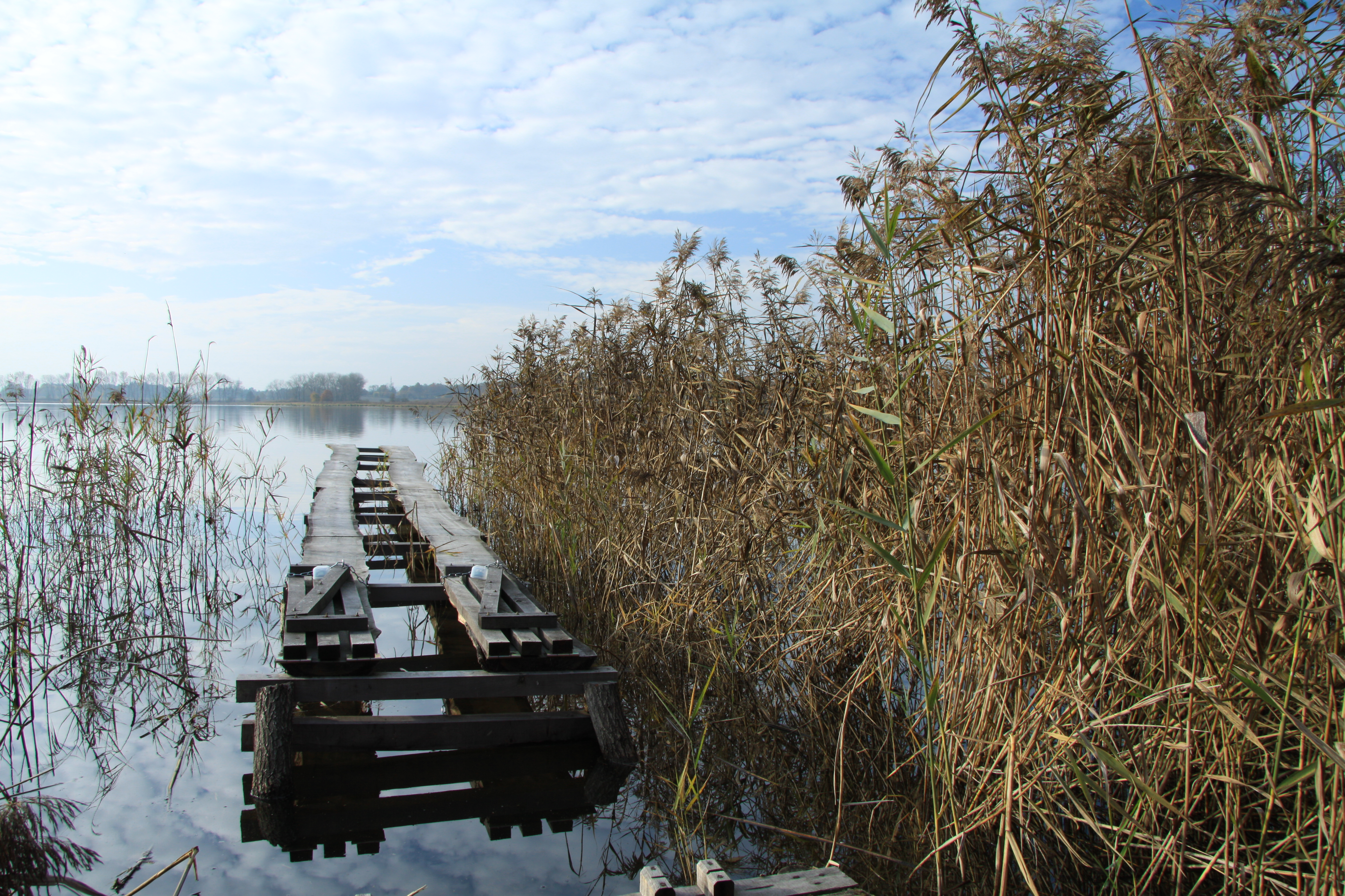 National nature reserve Řežabinec a Řežabinecké tůně in autumn 2011 in Písek District, Czech Republic